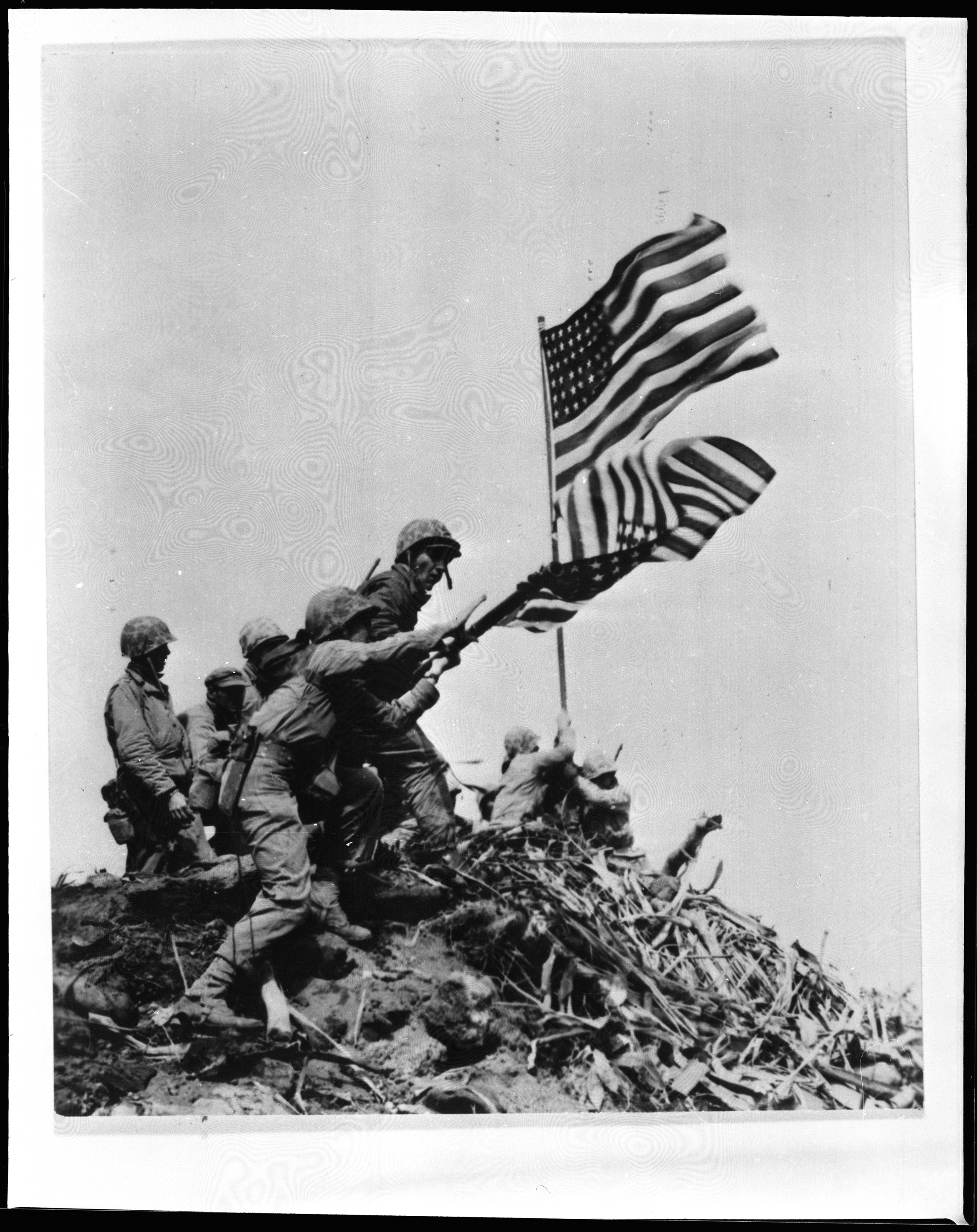 From the Louis R. Lowery Collection (COLL/2575) at the Archives Branch, Marine Corps History Division OFFICIAL USMC PHOTOGRAPH